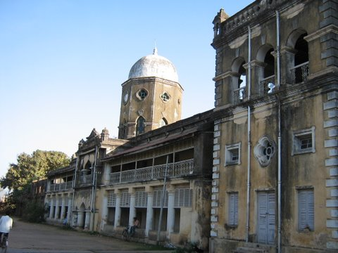 Palace in Bhawanipatna, Kalahandi district, India